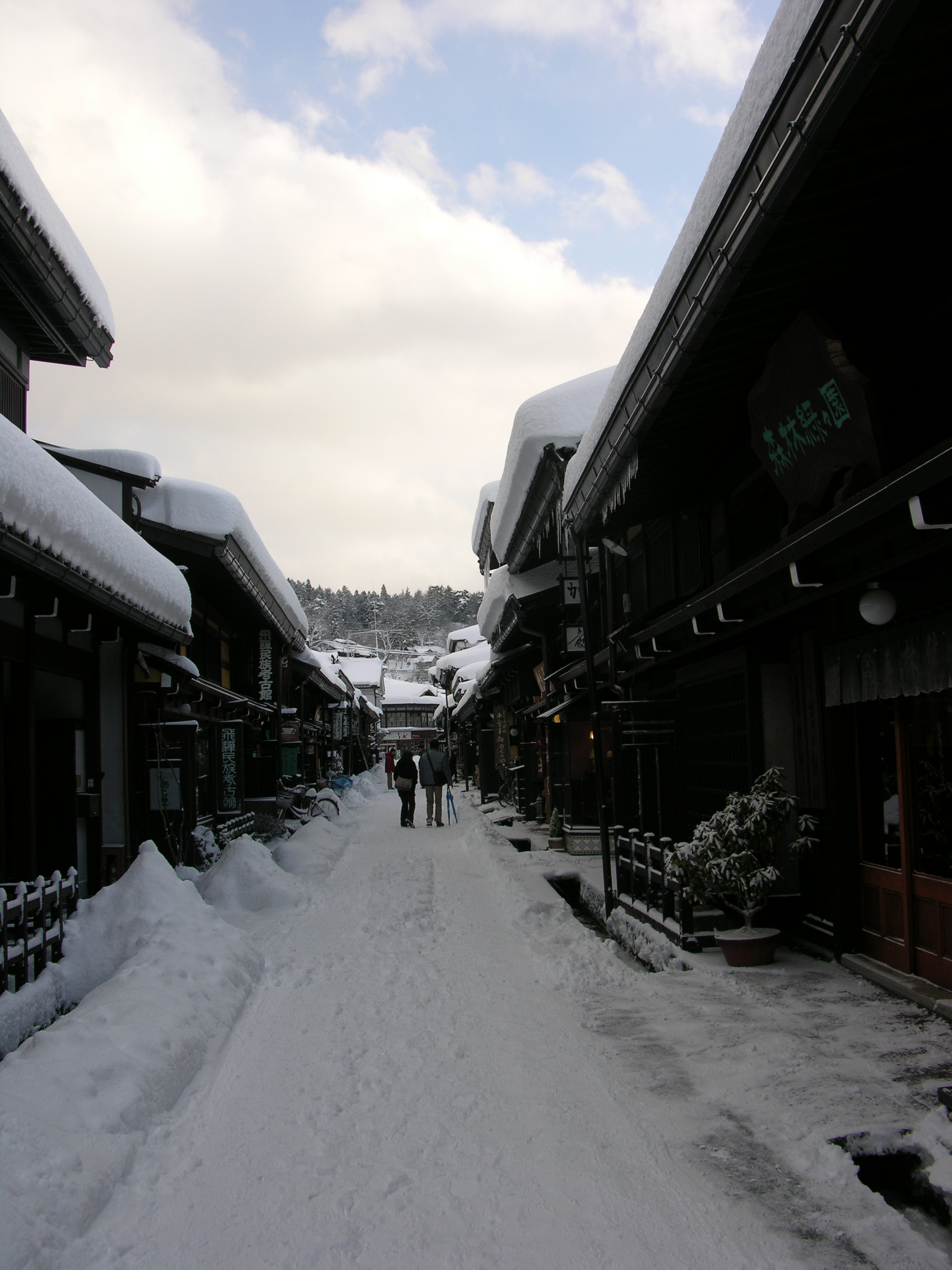 Author: Sergio Perez, December 2005. Camera Nikon Coolpix 8 MPixel